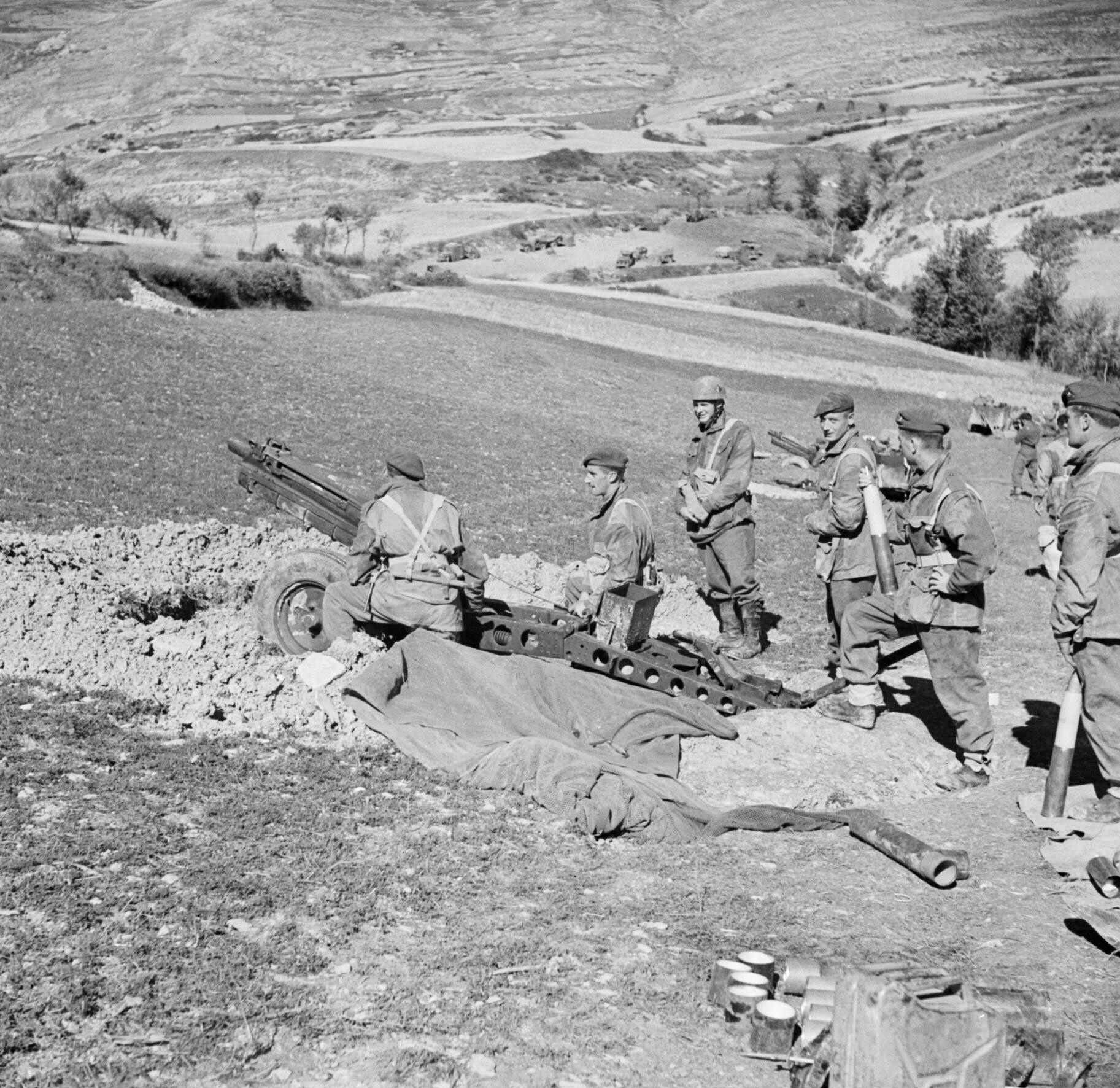 Gunners of the British 1st Air Landing Light Artillery Regiment, serving with 5th Division, in action with a 75mm howitzer during the advance on Isernia, Italy.